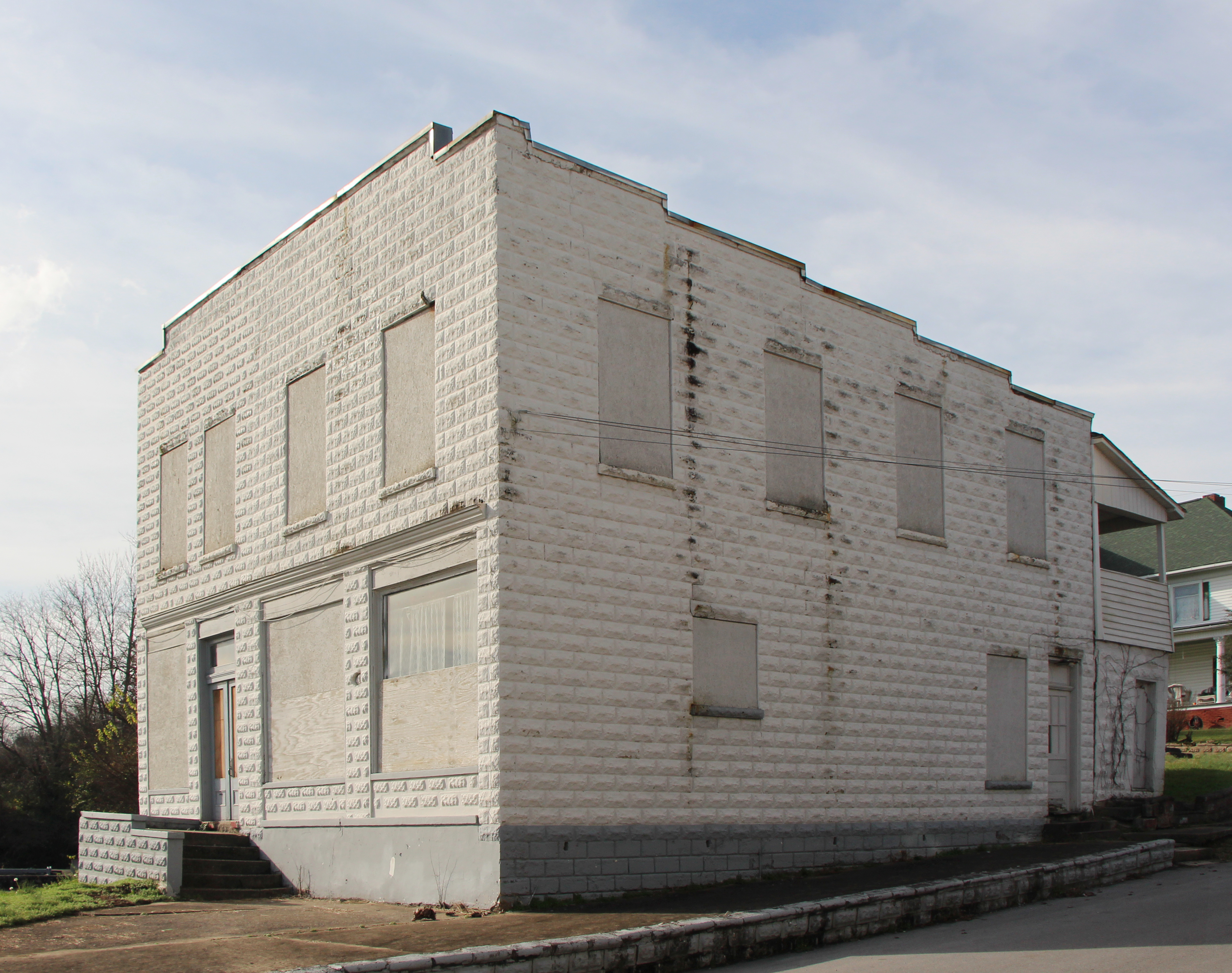 J. B. Willoughby Building, 148 South Main Street, Bulls Gap, TN